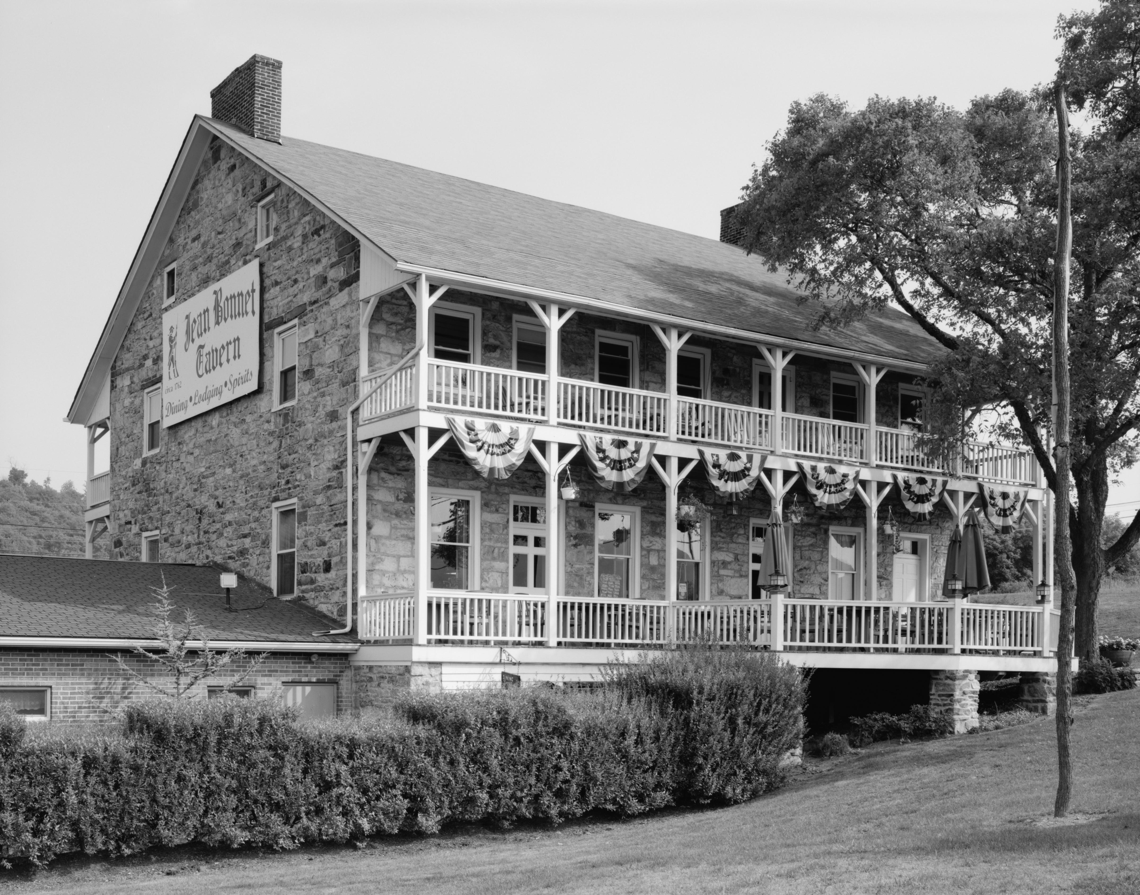 Front of Bonnet's Tavern, located at 6048 Lincoln Highway near Bedford in Napier Township, Bedford County, Pennsylvania, United States. Built in 1762, it is listed on the National Register of Historic Places.